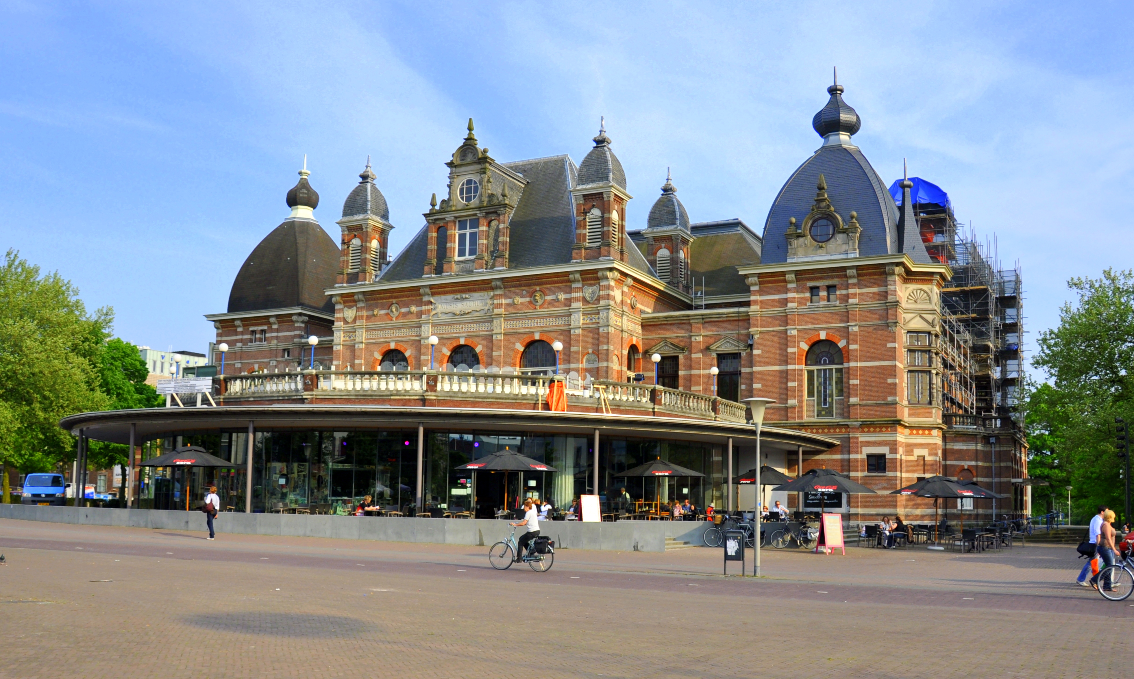 The Musis Sacrum, late afternoon